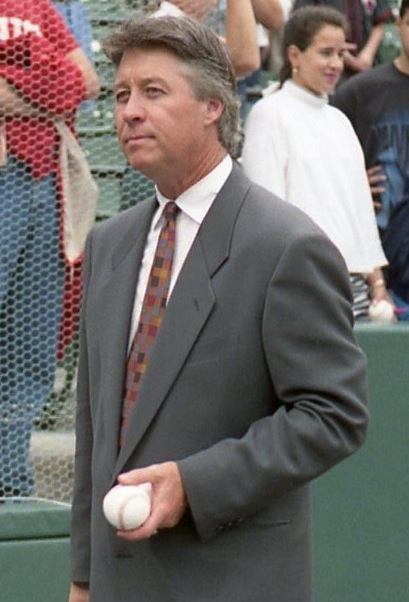 New York Yankees former player and broadcaster Bobby Murcer.